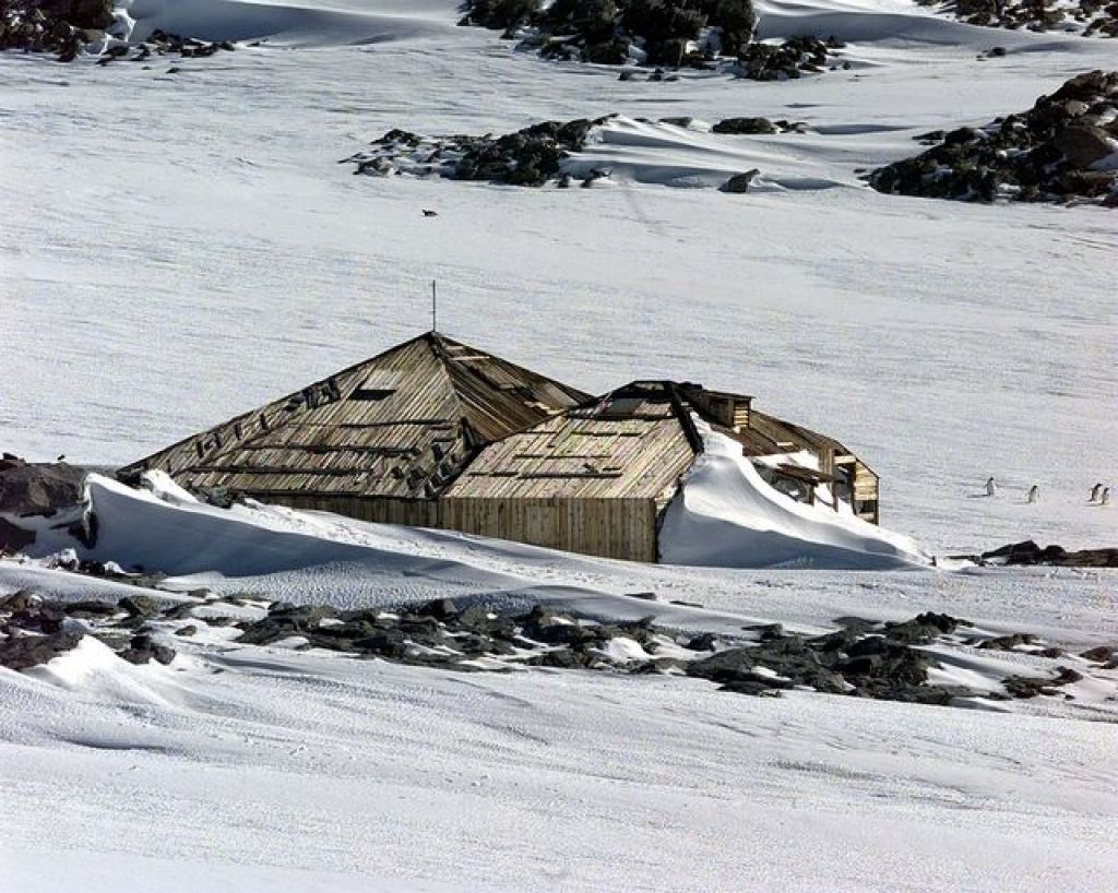 Mawson's Hut, Cape Denison, Antarctica..